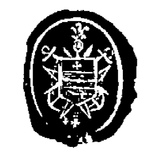 Seal of Michael Afendulief (1769-1855)- Appointed as leader of Greek Revolution on island of Creta 1822-1823